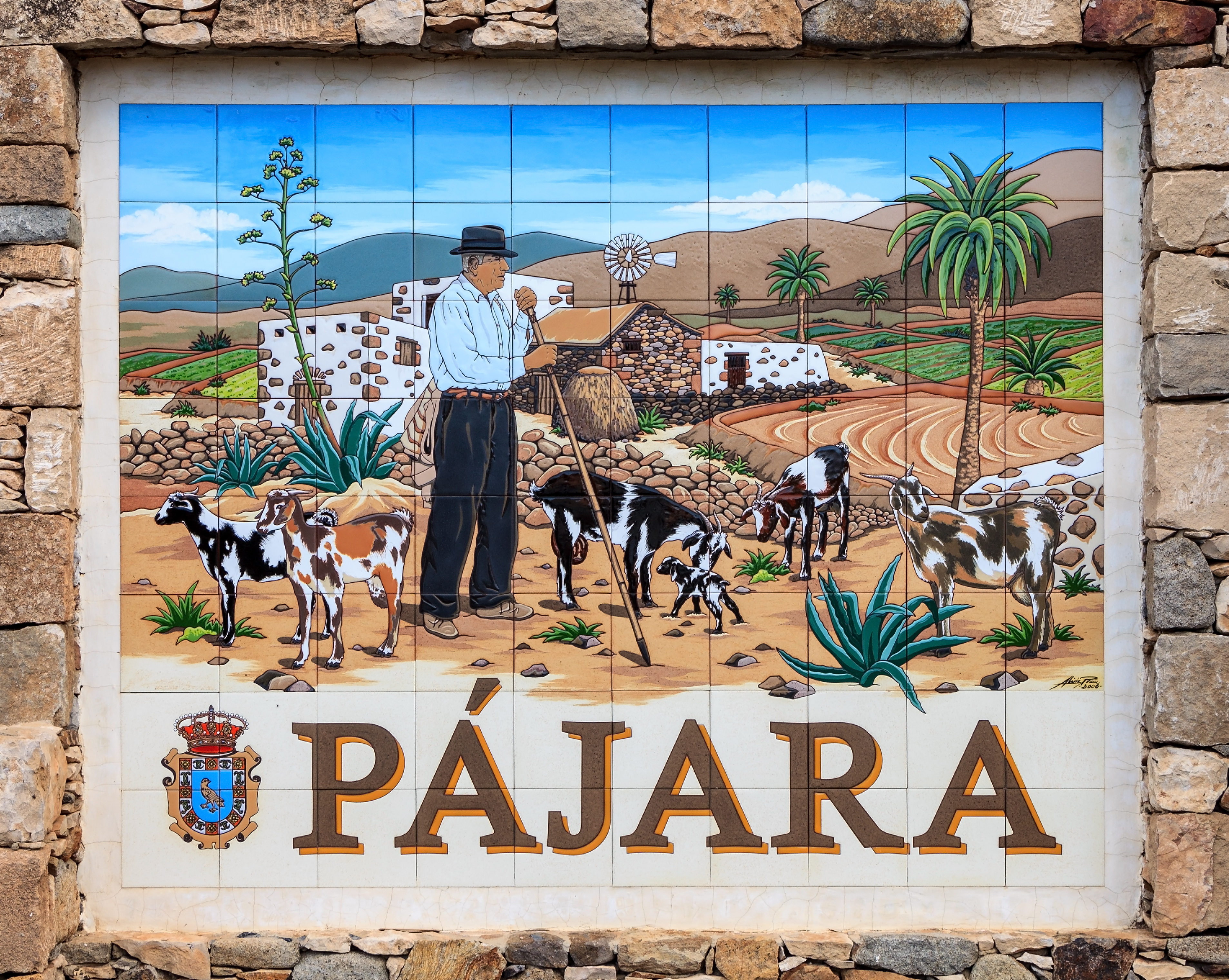 Place-name sign at the western entrance to the village Pájara, Fuerteventura, Canary Islands, Spain.